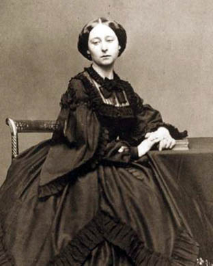 Princess Alice, later Grand Duchess of Hesse (1843 - 1878), daughter of Queen Victoria.